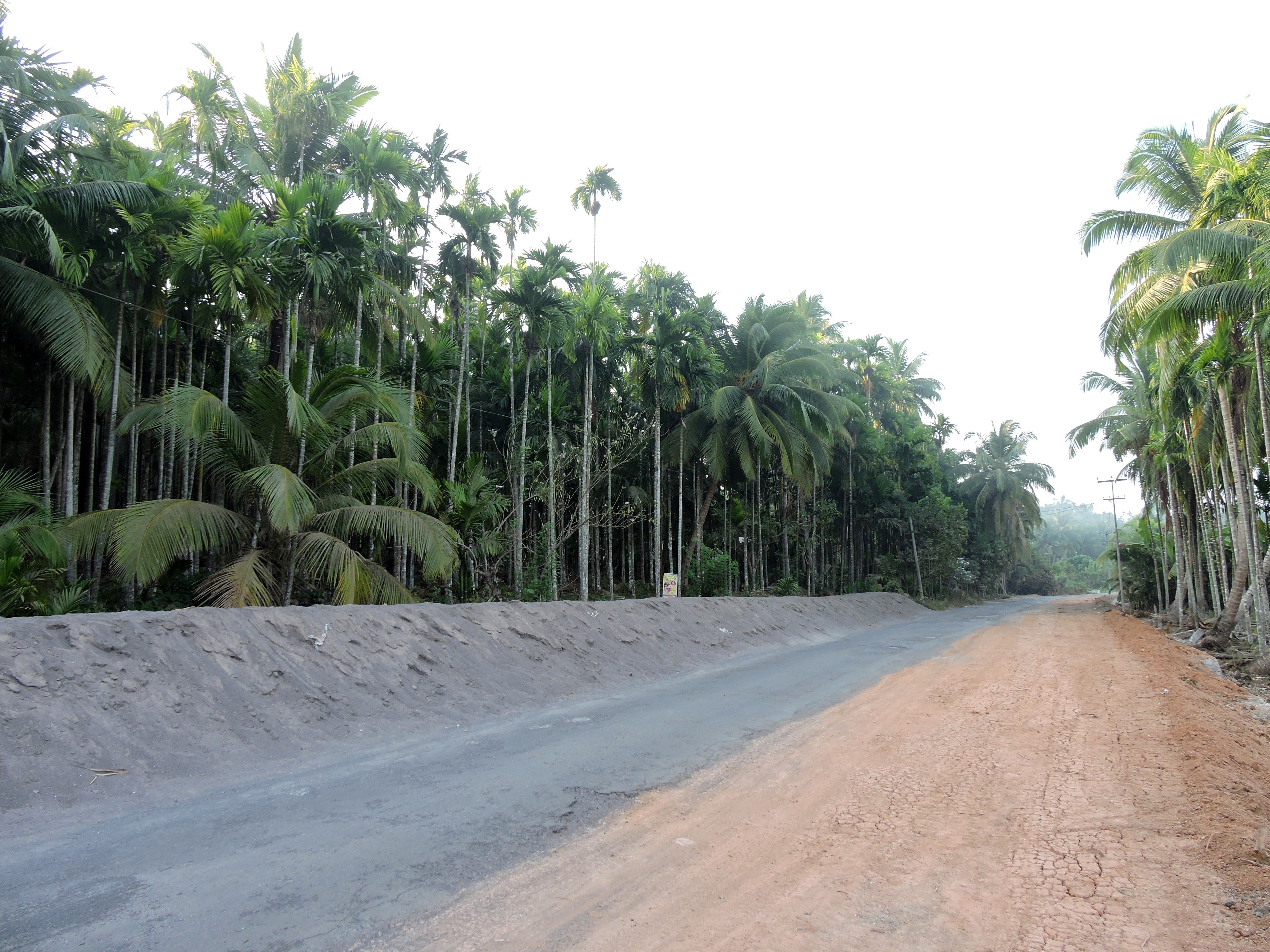 Landscape of Havelock Island,Andaman, India